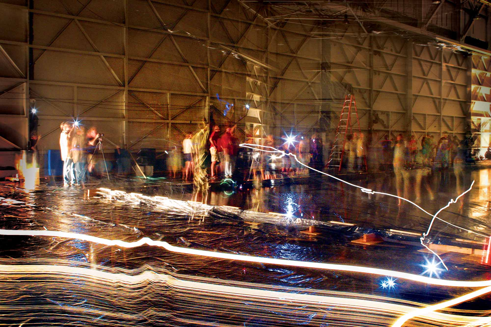 The Great Picture was developed by 80 volunteers using 1,800 gallons of black and white chemistry.